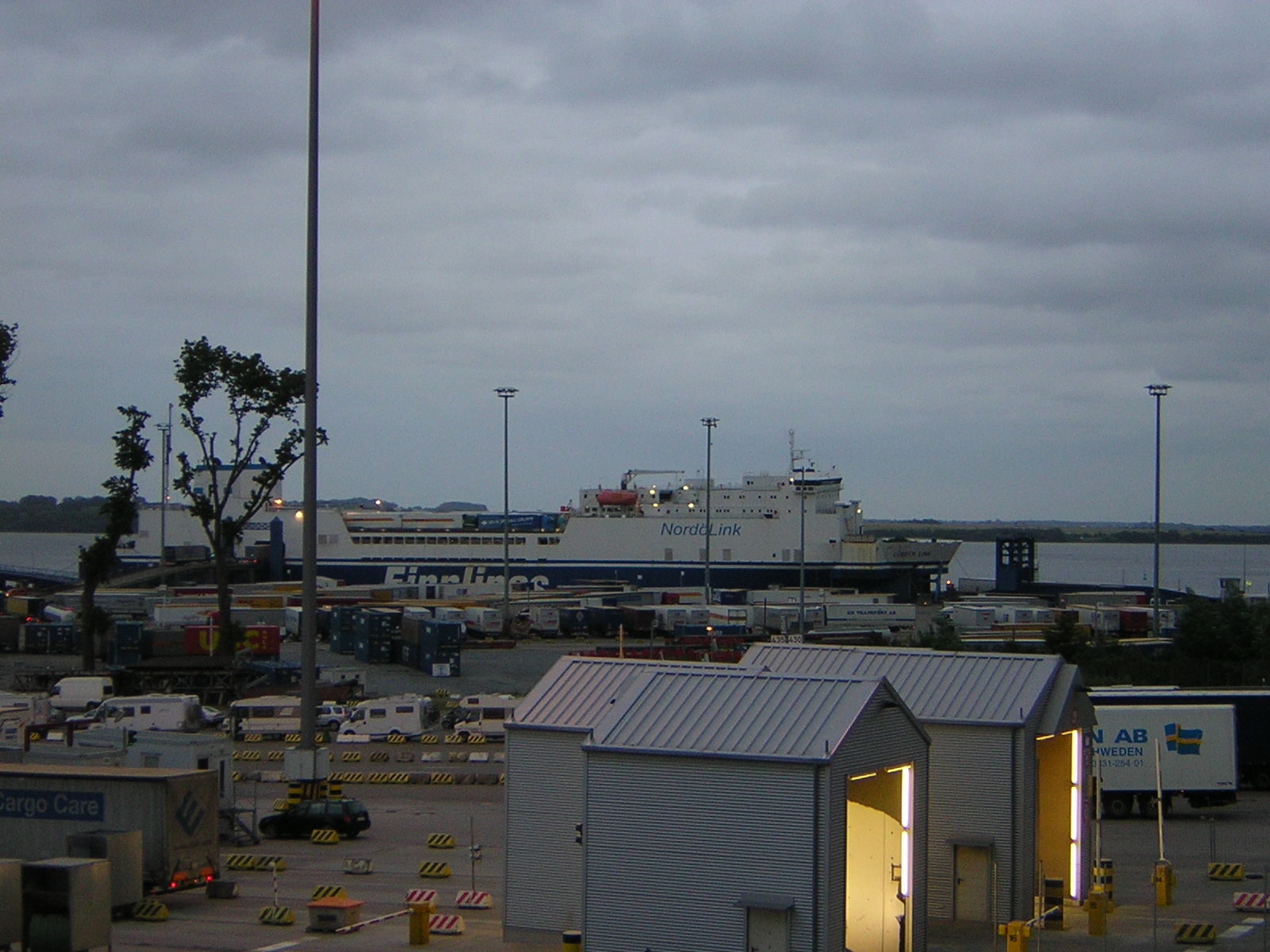 M/S Luebeck Link loading at Travemuende